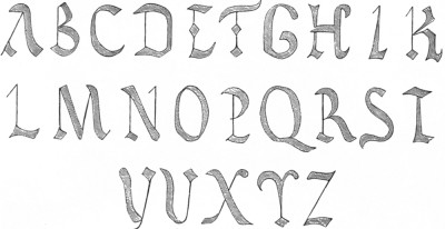 (Removed after reusableart request.)